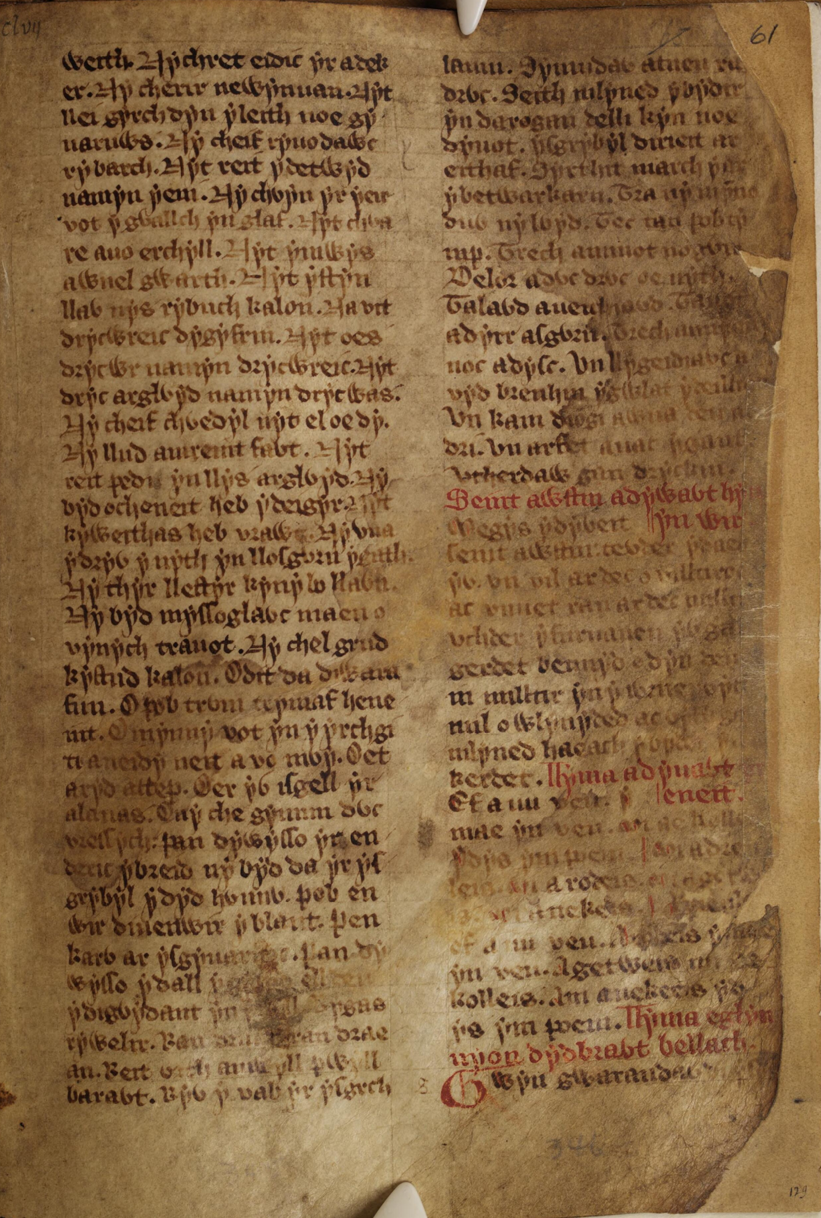 Part one of the two manuscripts of Llyfr Gwyn Rhydderch, comprising the Four Branches of the Mabinogion; Peredur; Macsen Wledig; Lludd a Llefelus; fragments of Owain a Luned; Geraint ac Enid; and an incomplete version of Kulhwch ac Olwen; and a poem by Llywelyn Moel. f.61.r.